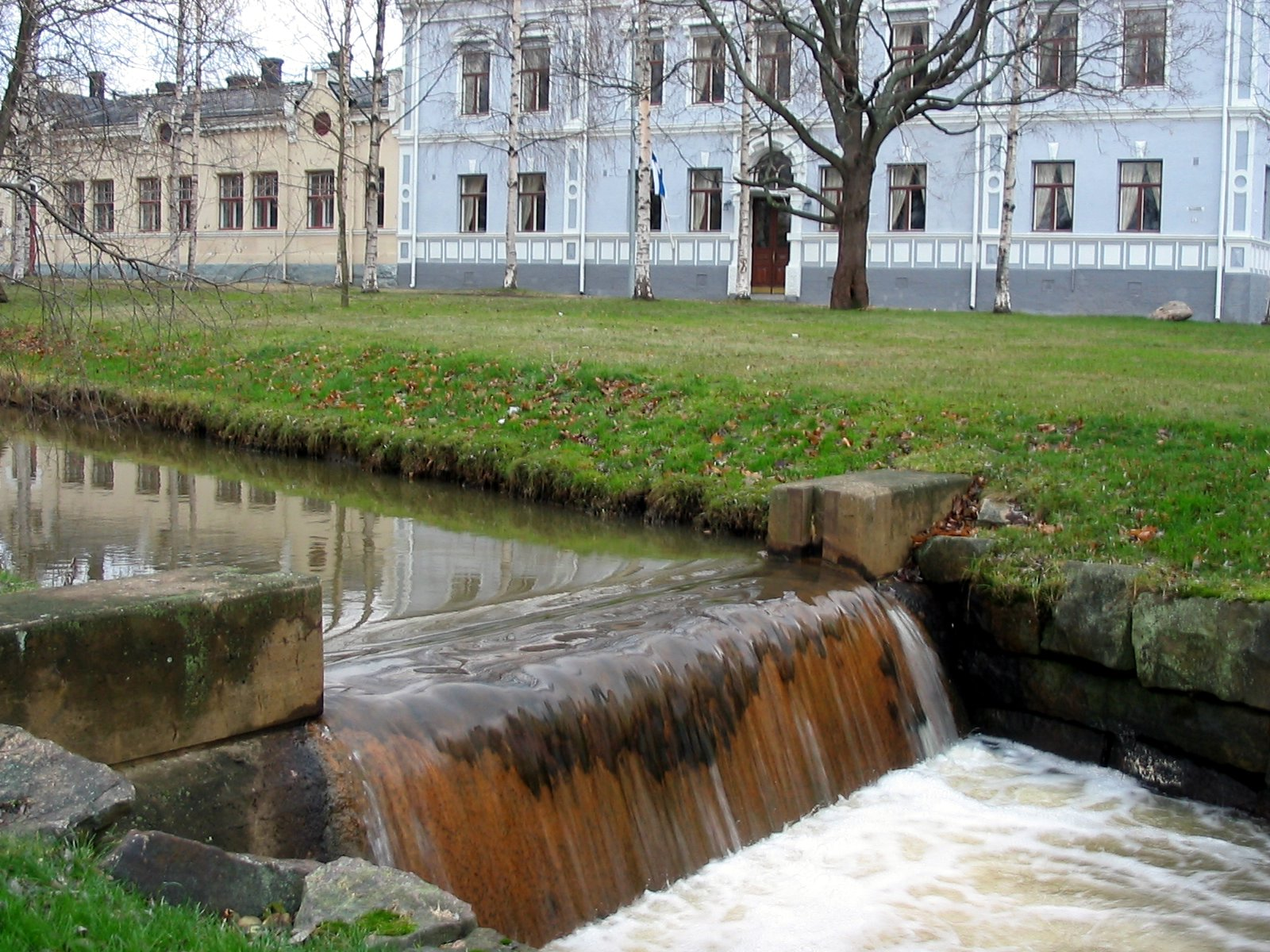 A small waterfall in Pokkisenpuisto Park, Oulu, Finland.